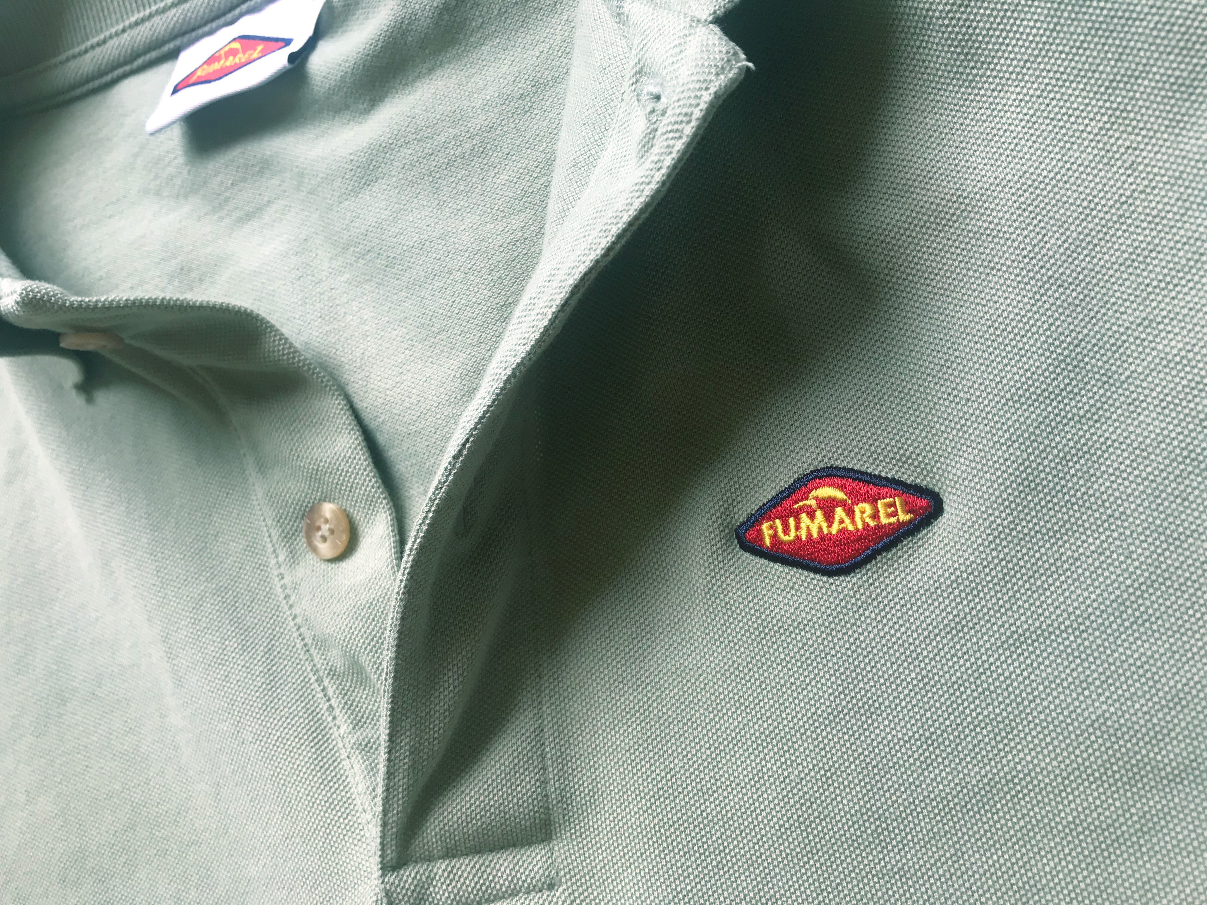 Fumarel piqué polo shirt in jade green